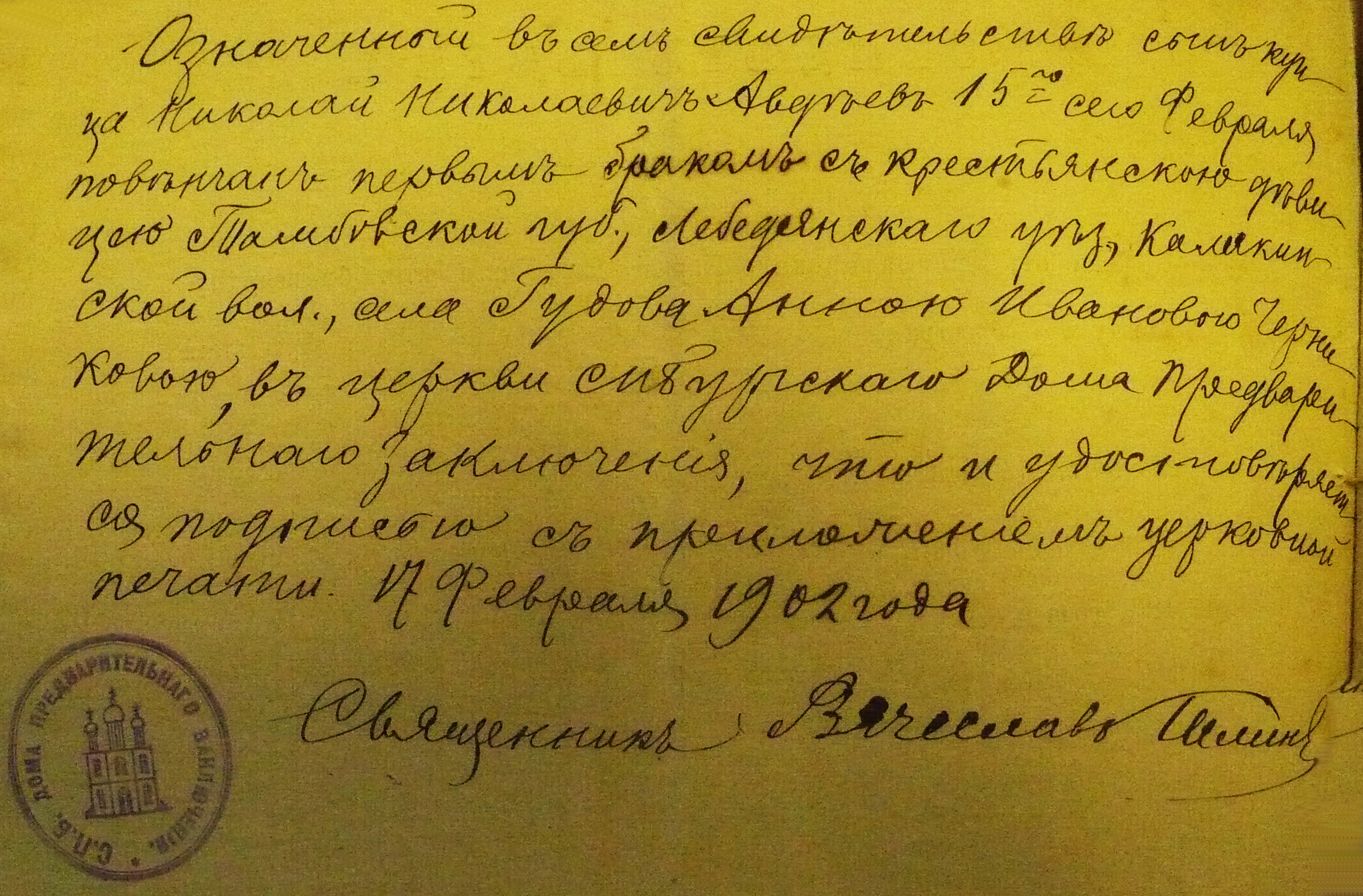 Marriage certificate in Russian prison, 1902 year.